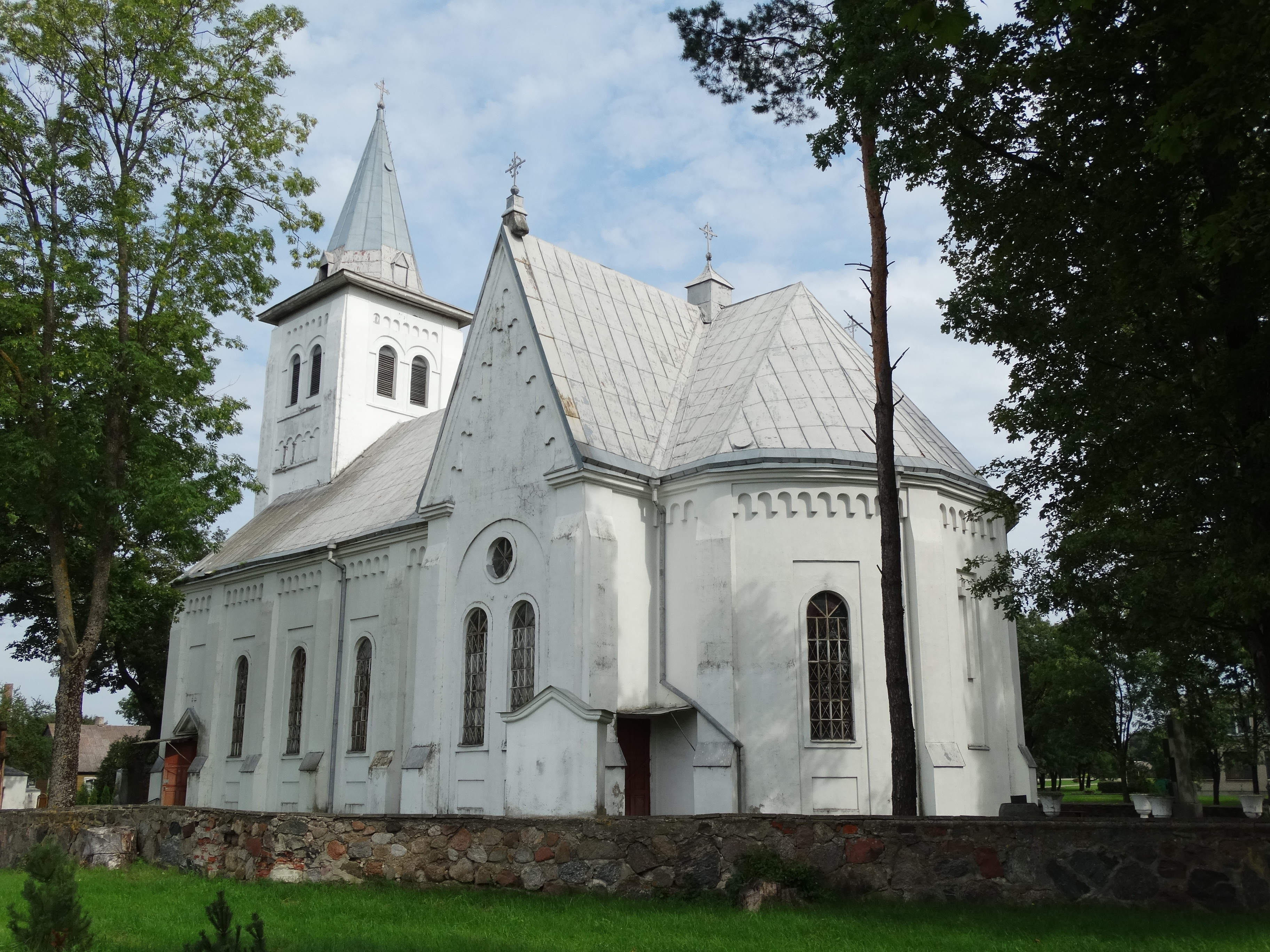 Church of Crucified Jesus, Juodaičiai, Jurbarkas district Lithuania